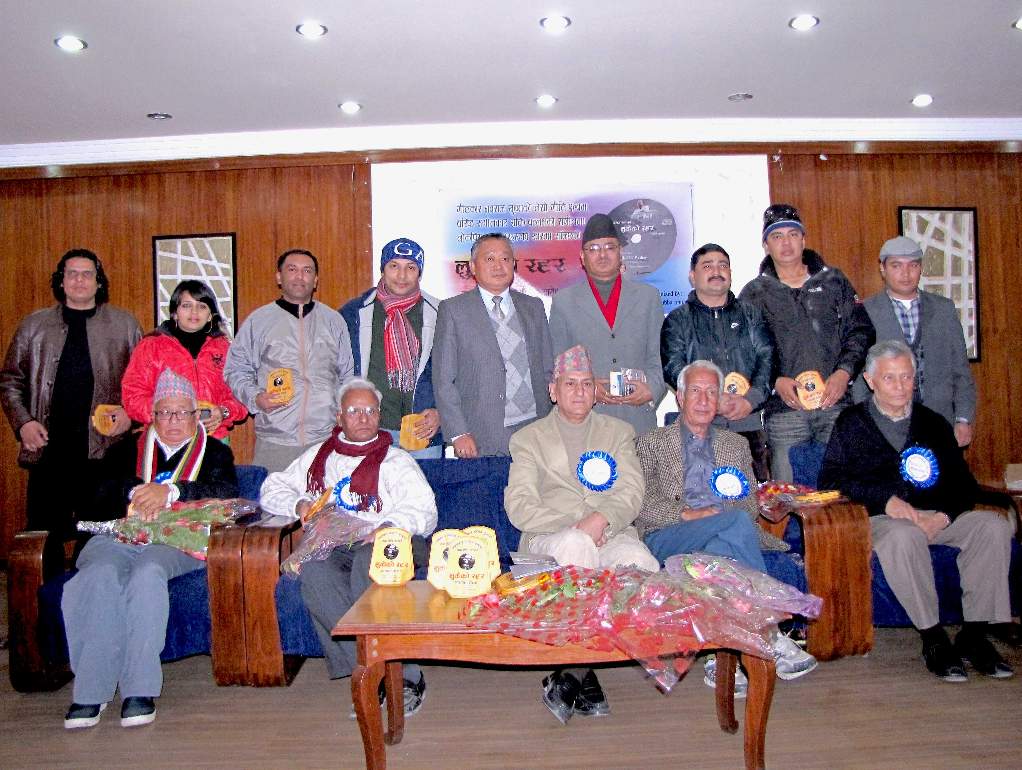 Lyricists, singers and writers in a ghazal album-'lukeko rahar' release-program held in Kathmandu 2010